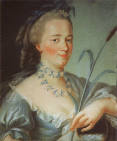 Countess Praskovja Aleksandrovna Bruce (1729 – 1785).